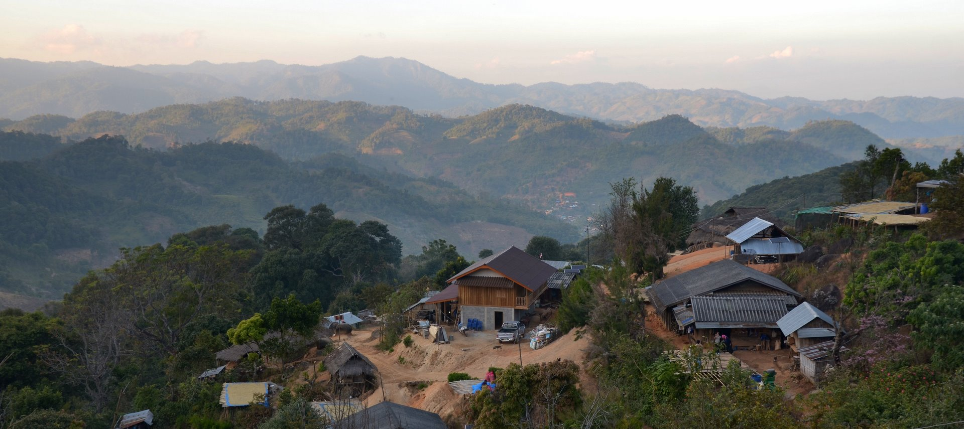 Part of the Akha village of Maejantai in Chiang Rai province, Thailand.